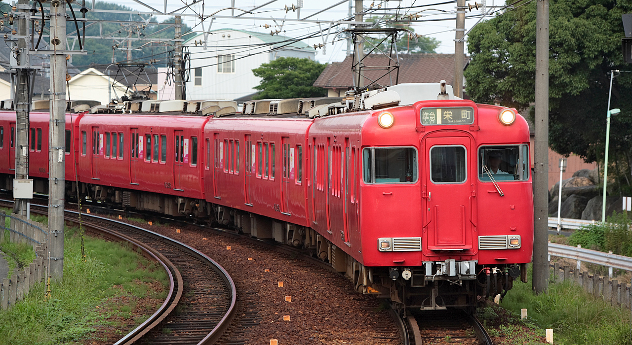 Meitetsu 6000 series Ōmori-Kinjōgakuin-mae Station ( 6026F )